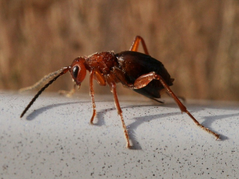 Biorhiza pallida, location: The Netherlands - Sallandse Heuvelrug - Eelerberg